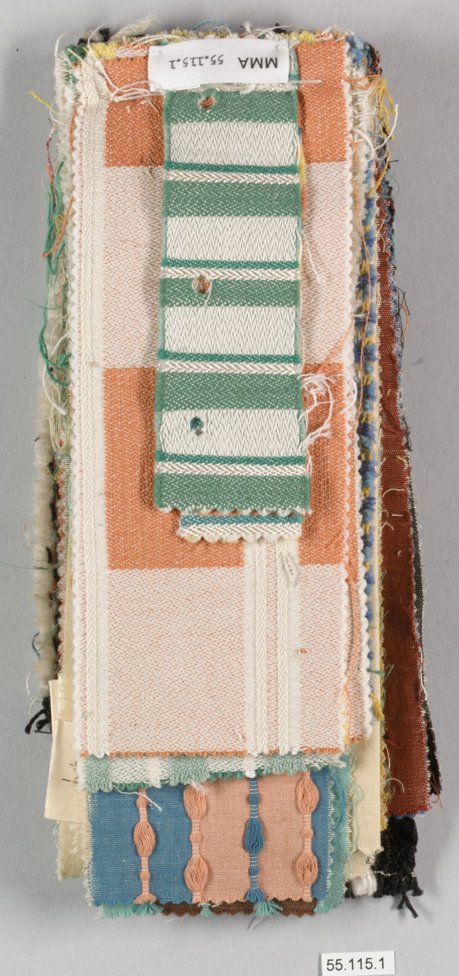 Book; Textiles-Sample Books